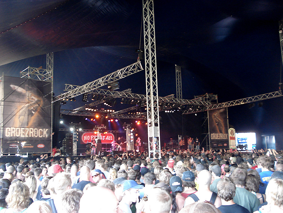 The Main Stage of Groezrock, No Fun At All play at the stage in 2008.